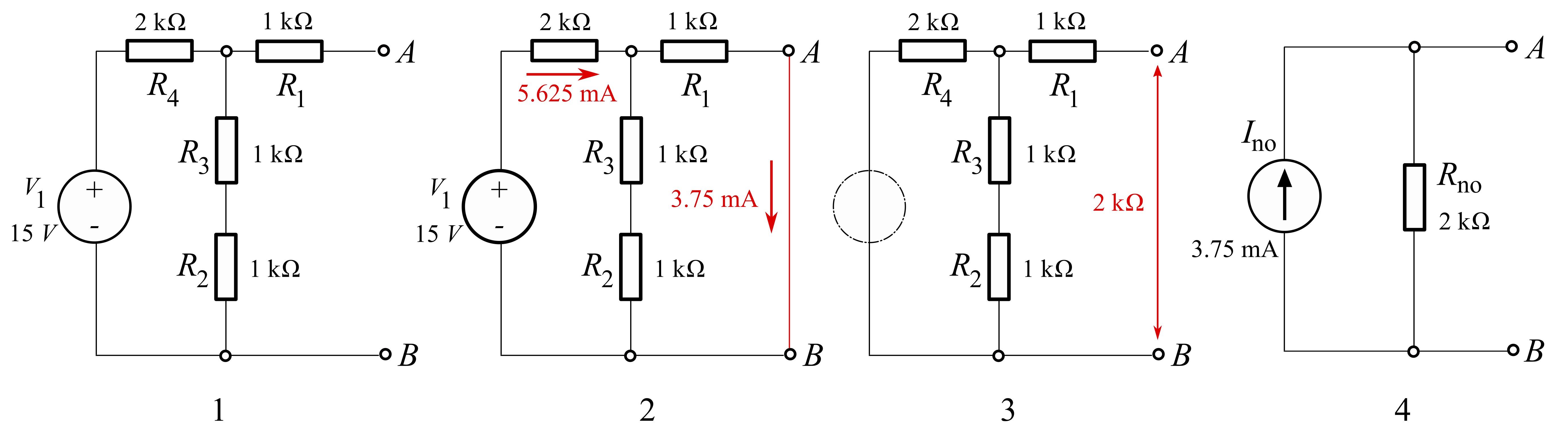 Example of Nortons theorem